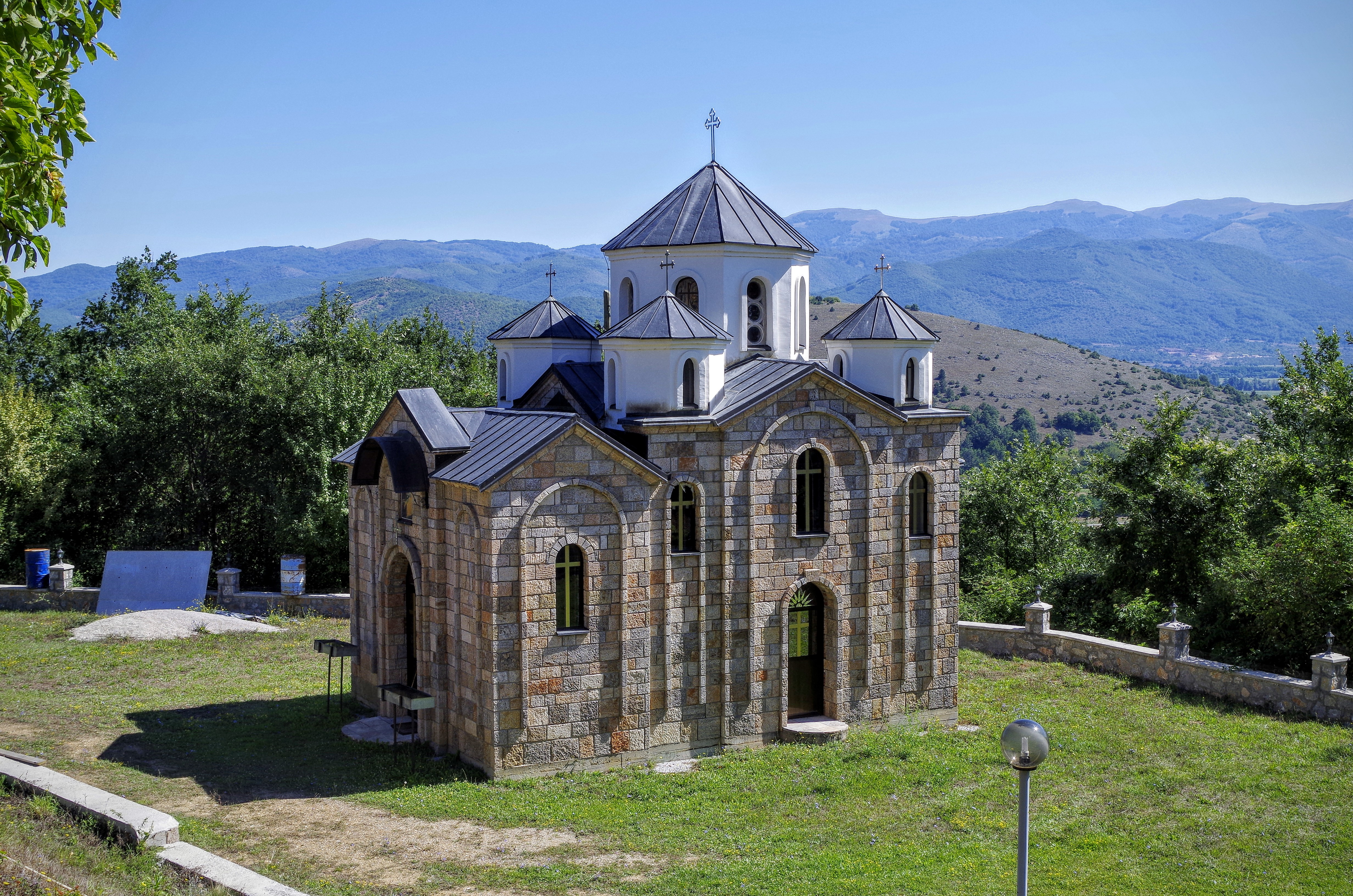 View of St. Mary Church in the village Zlesti, Macedonia